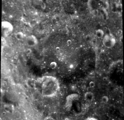 Leucippus lunar crater - Clementine image